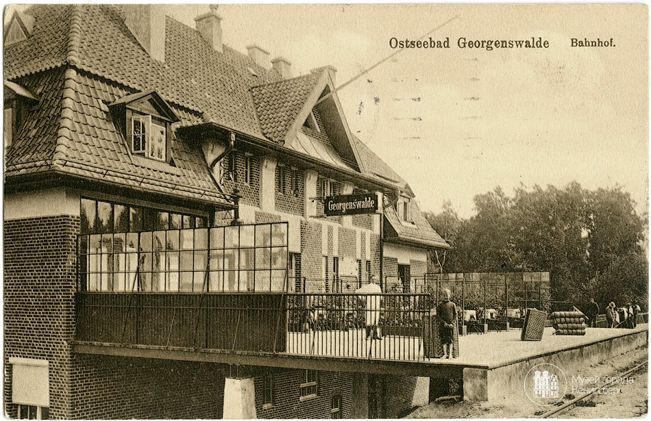 Georgenswalde Bahnhof, 1920